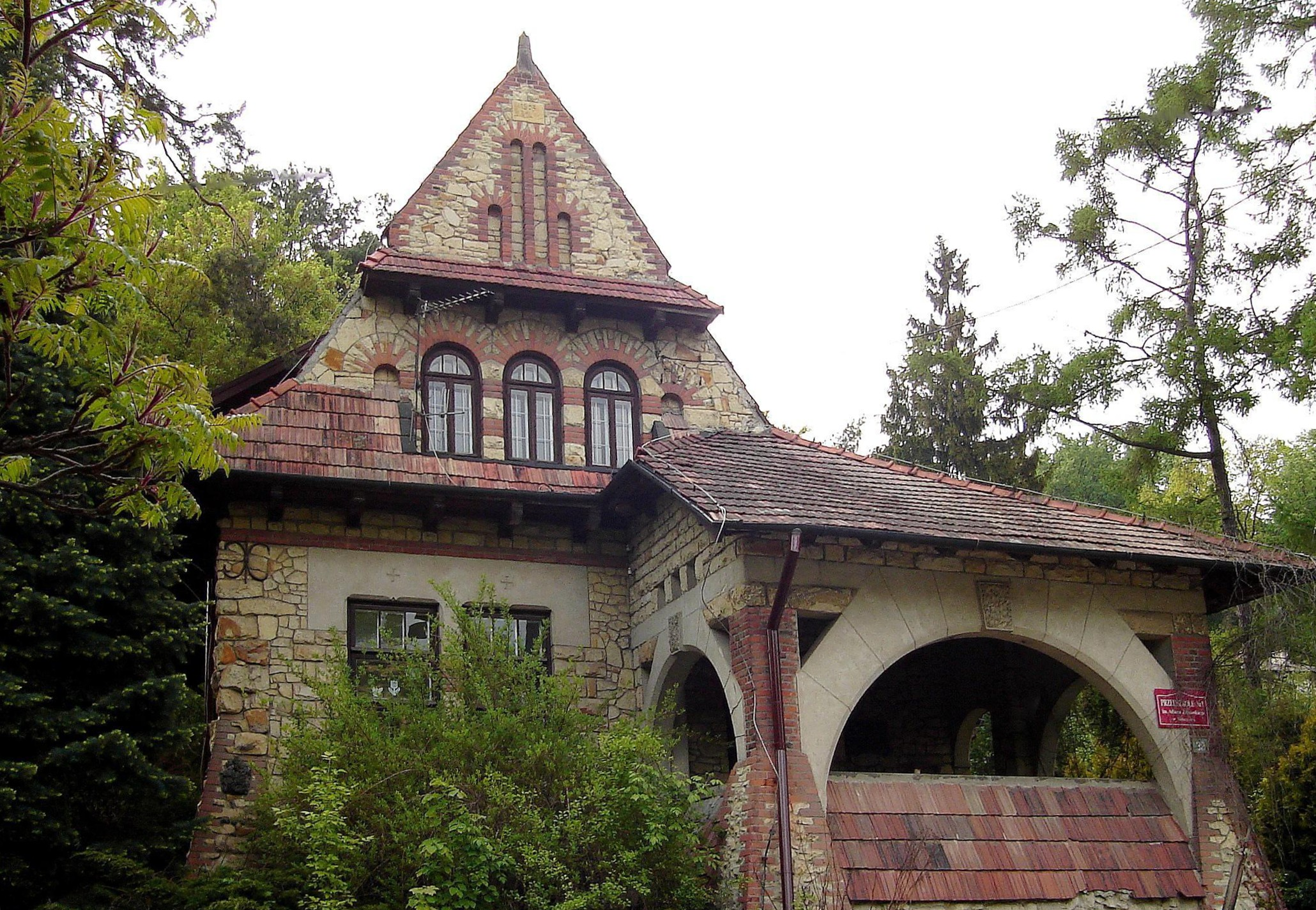 Naleczow